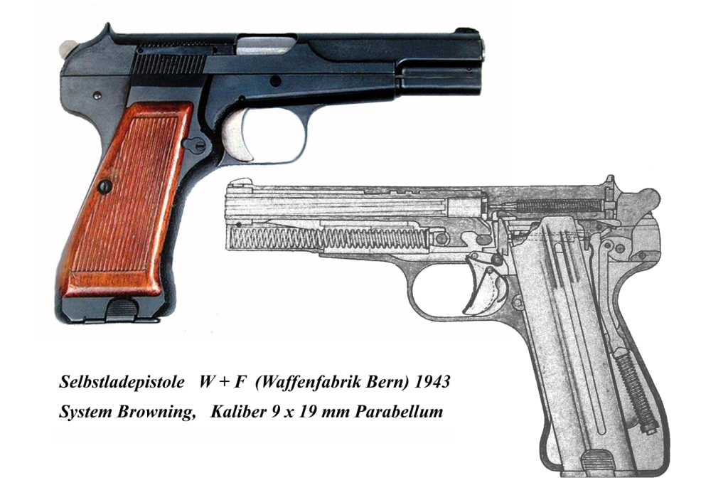 W+F 1943 Pistole